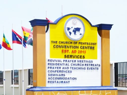 Photograph I captured on November 16, 2016 at PCC